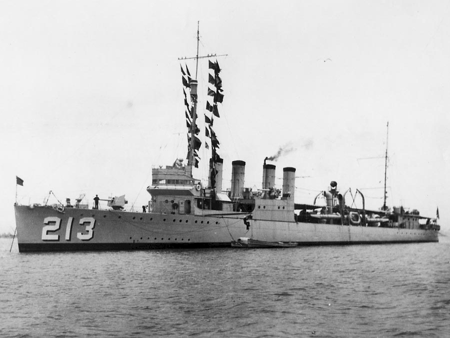 The U.S. Navy Clemson-class destroyer USS Barker (DD-213) drying signal flags while at anchor, 17 May 1928.